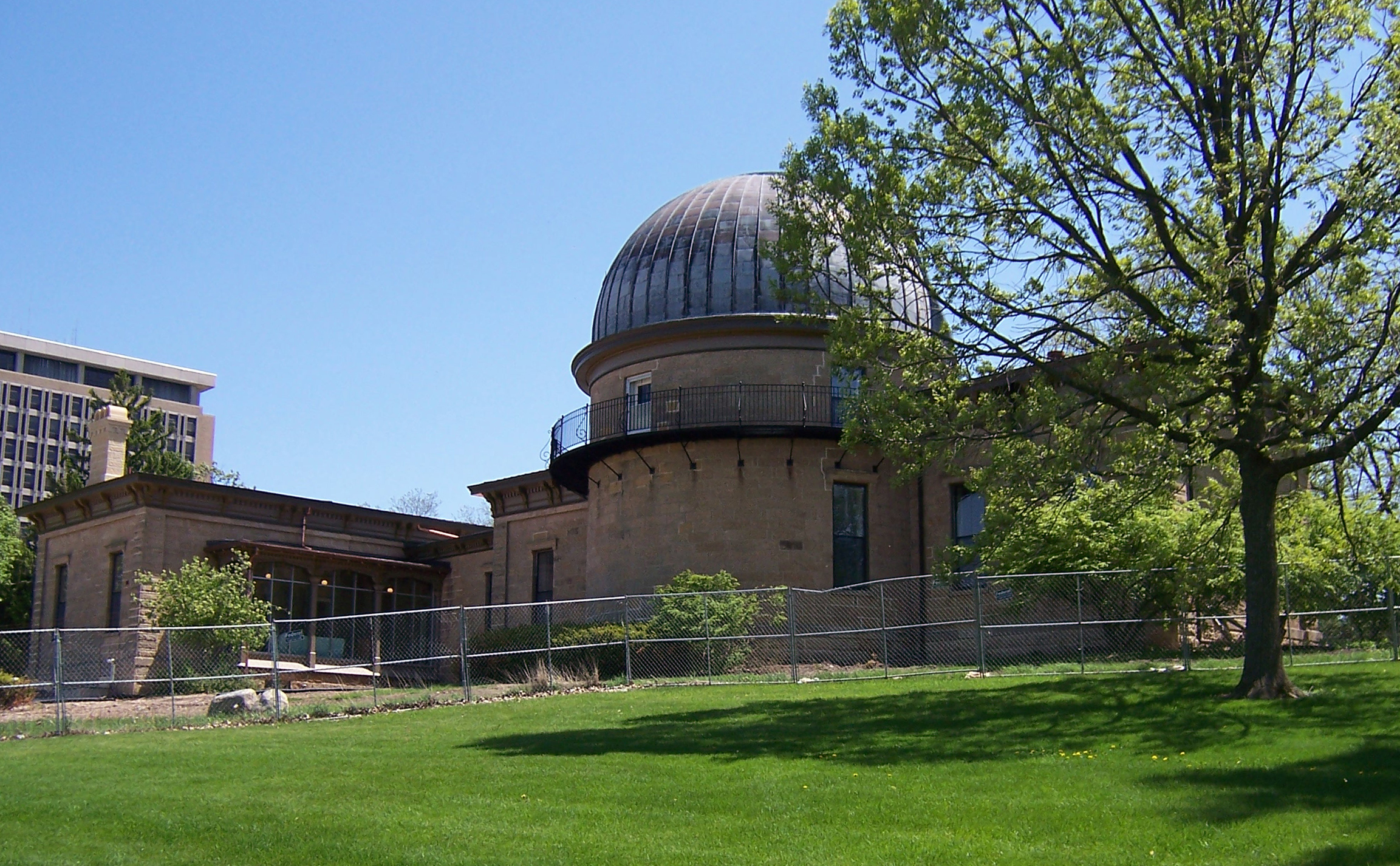 This is Washburn Observatory in the middle of Spring, 2009. In the picture, you can see fencing from the renovation that it was undergoing at the time.